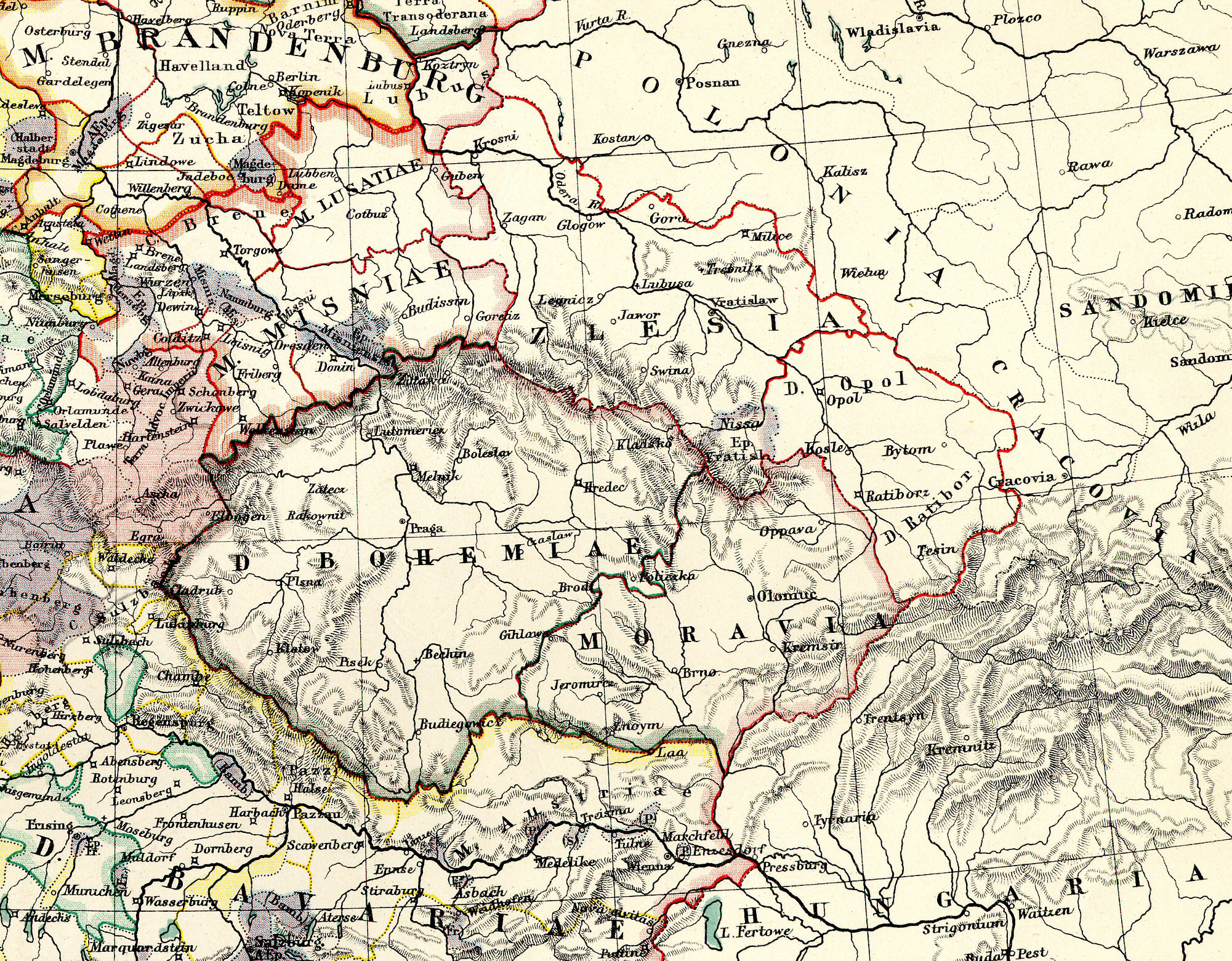 Czechia (Bohemia) and its neighbours in 1138 - 1254